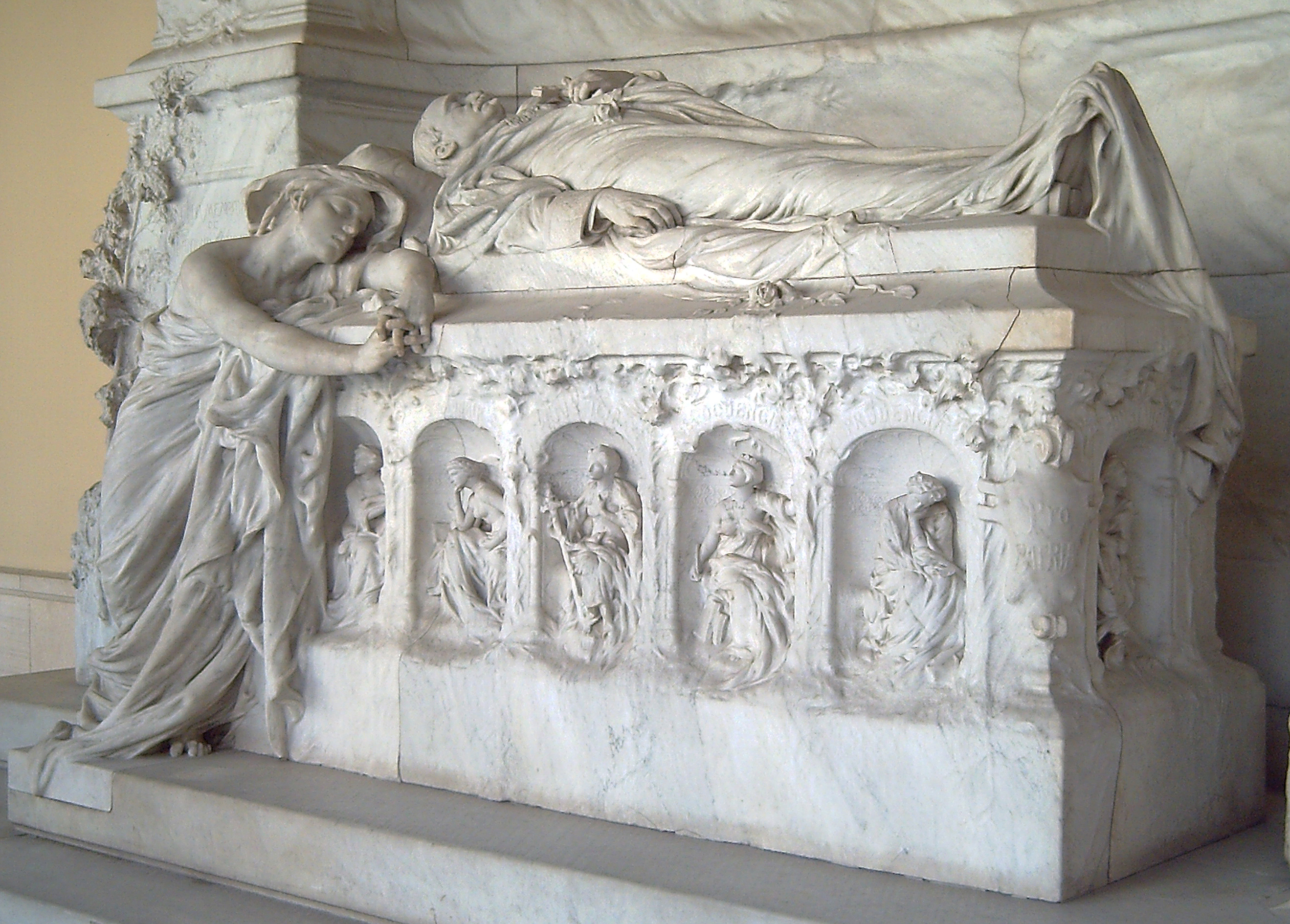 Detail of the mausoleum of Antonio Cánovas del Castillo.